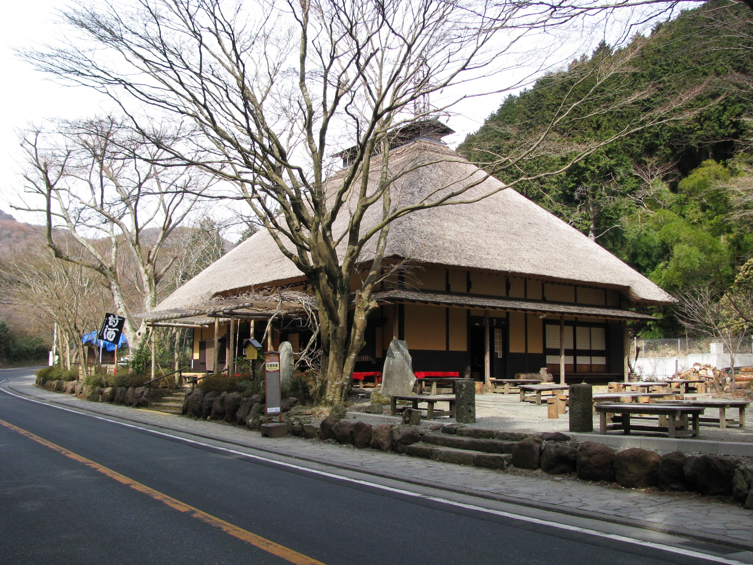 The Amazake-cyaya is a Japanese tea house, lokated in Hakone-mati, Ashigarashimo-gun, Kanagawa-ken, Japan.